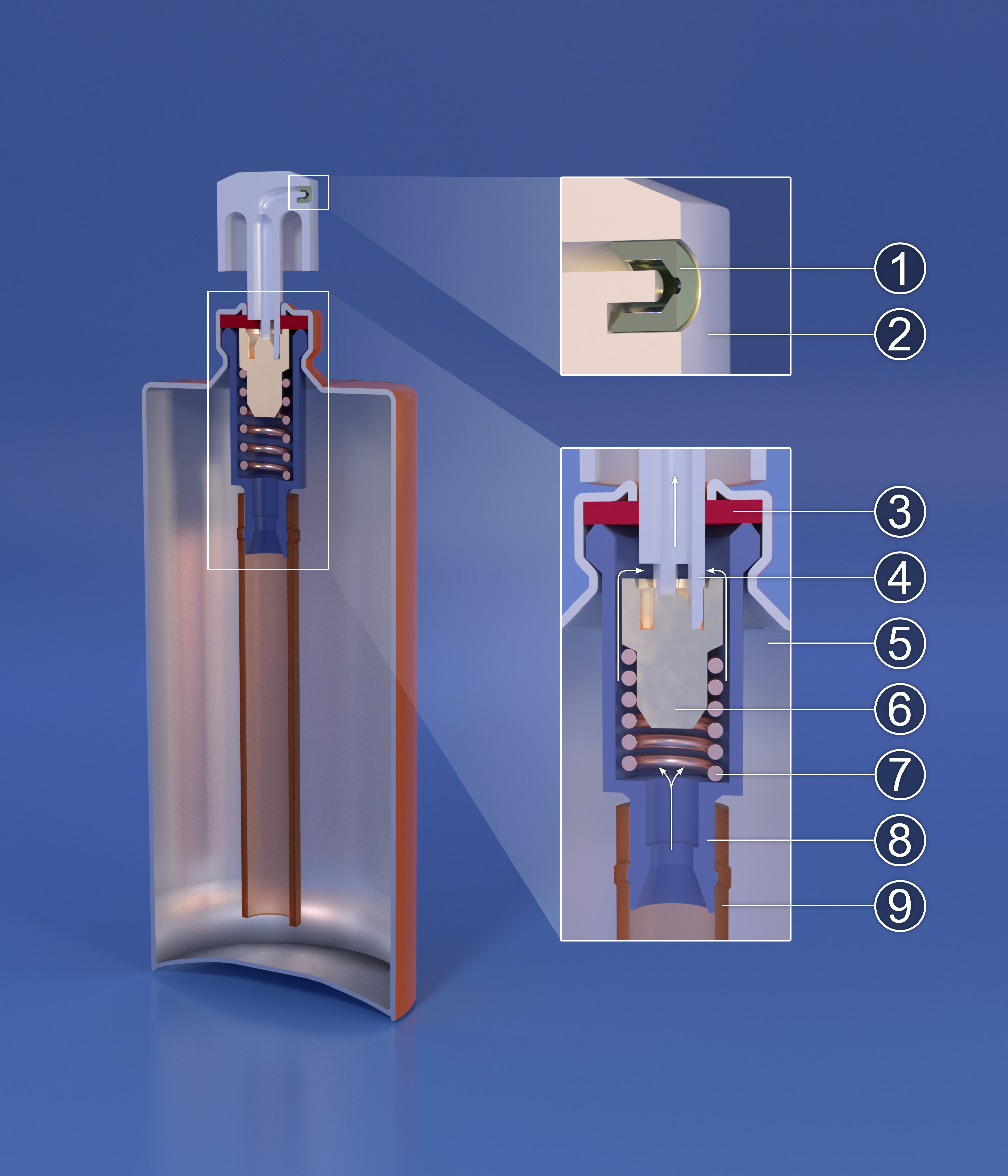 A model of a typical paint valve system with a "female" valve, the stem being part of the top actuator. This type has no valve cup. The left part shows the spray in closed state, while the right side shows the pressed/open state, to illustrate the functionality. Orifice insert Actuator Gasket Stem Valve Spring cup Spring Valve Housing Dip tube This model was created with Blender using LuxRender as external renderer. It took approximately 38h to render on a 8 core machine.